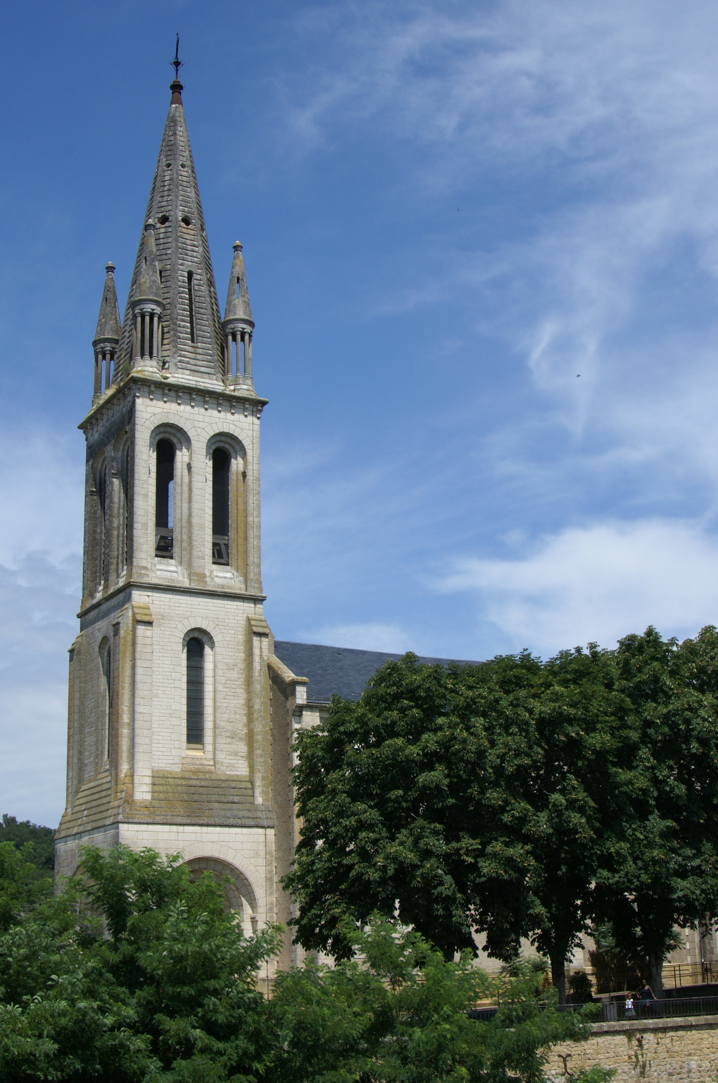 Saint-Pierre-ès-Liens church of Lalinde, Dordogne, France